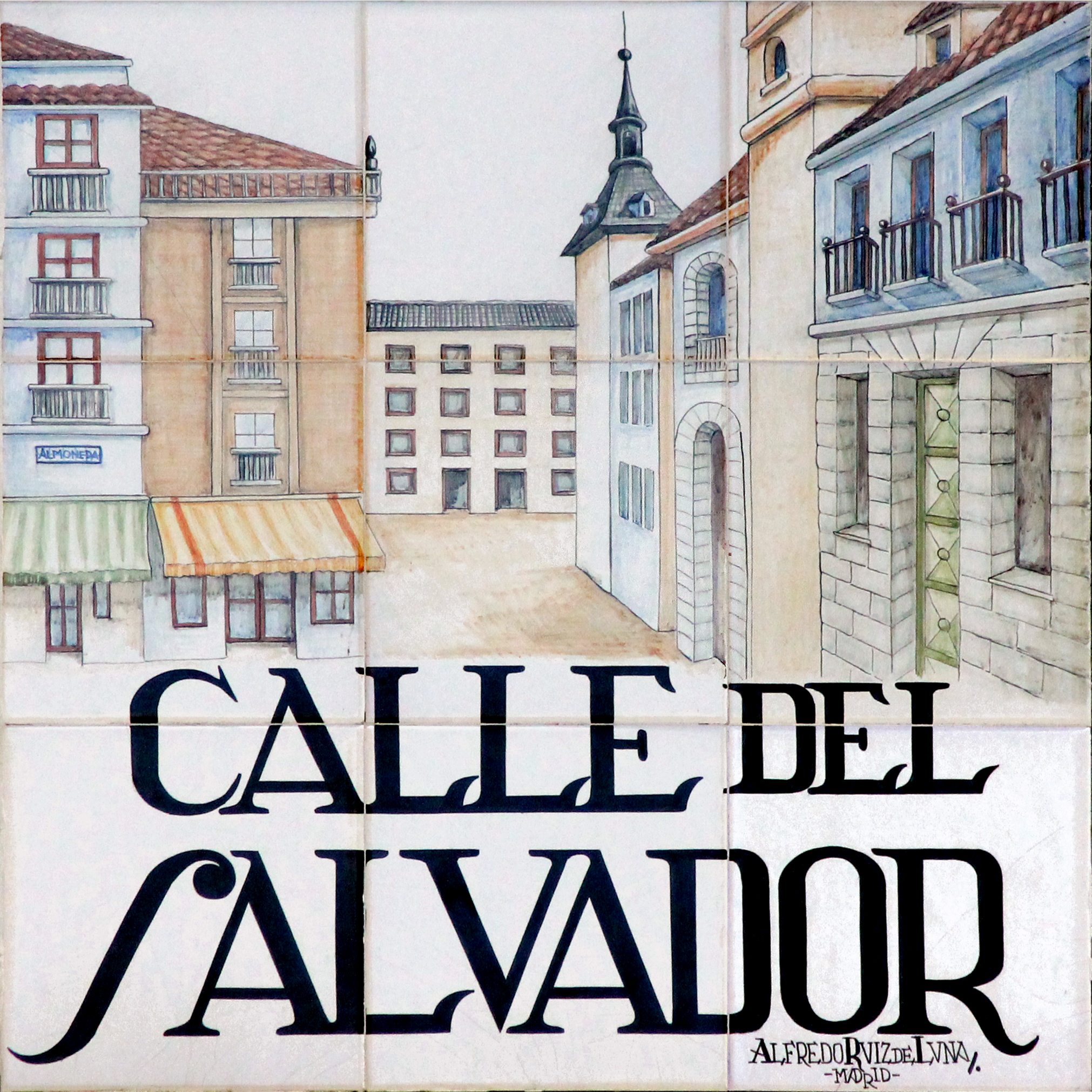 Sign of Calle del Salvador (street) in Madrid (Spain).